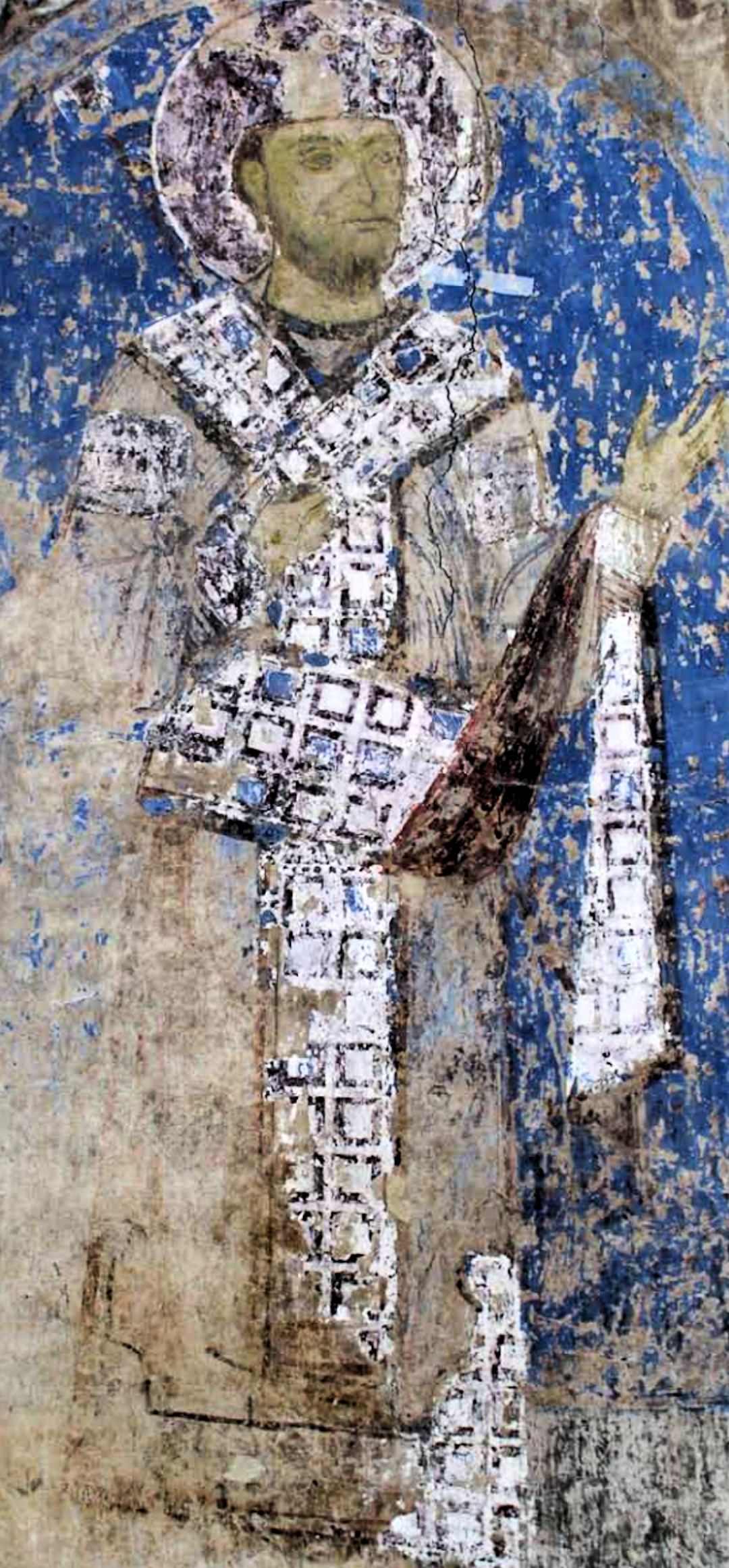 Fresco of George III of Georgia fom the Kintsvisi monastery